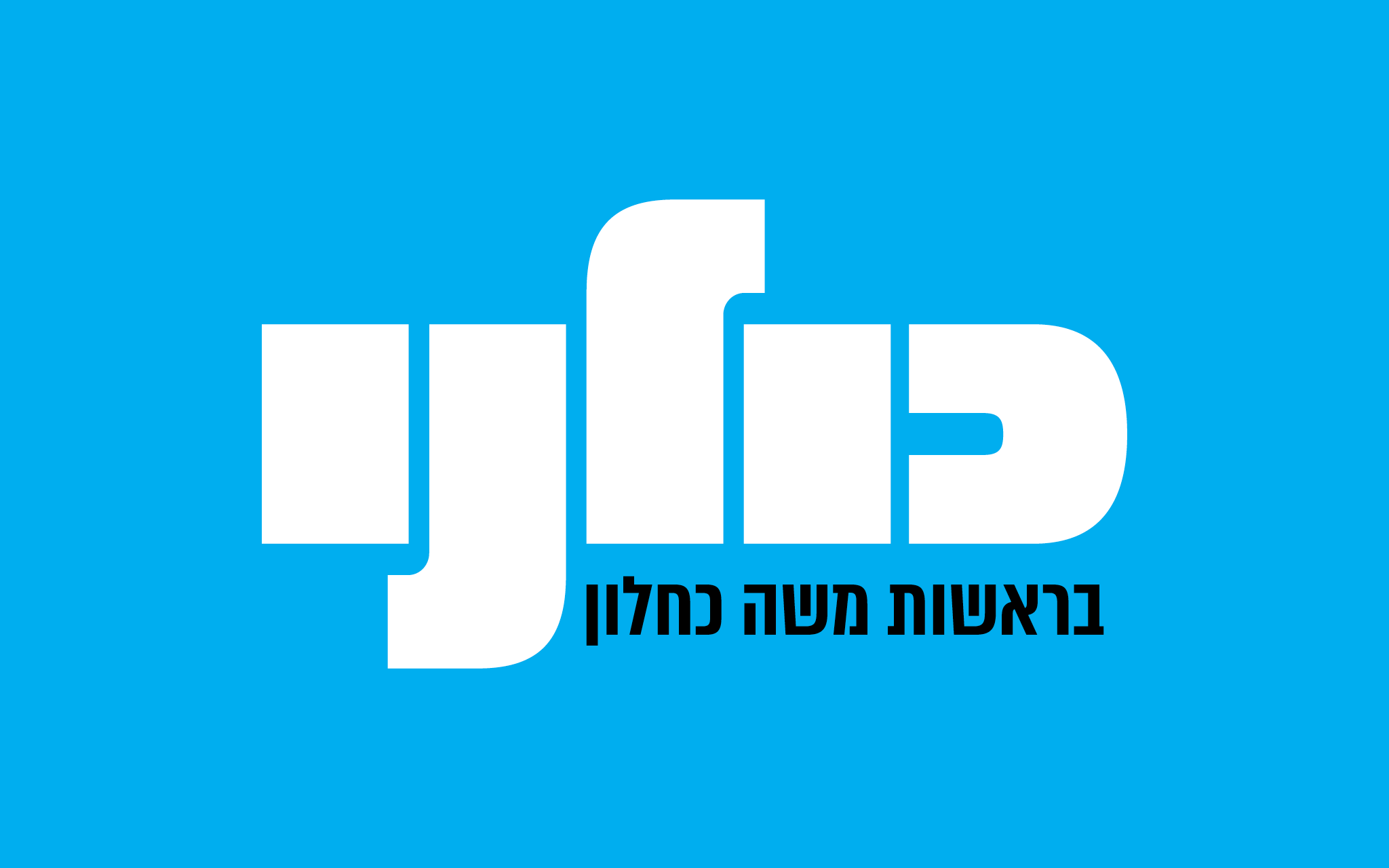 Updated logo for Kulanu 2018